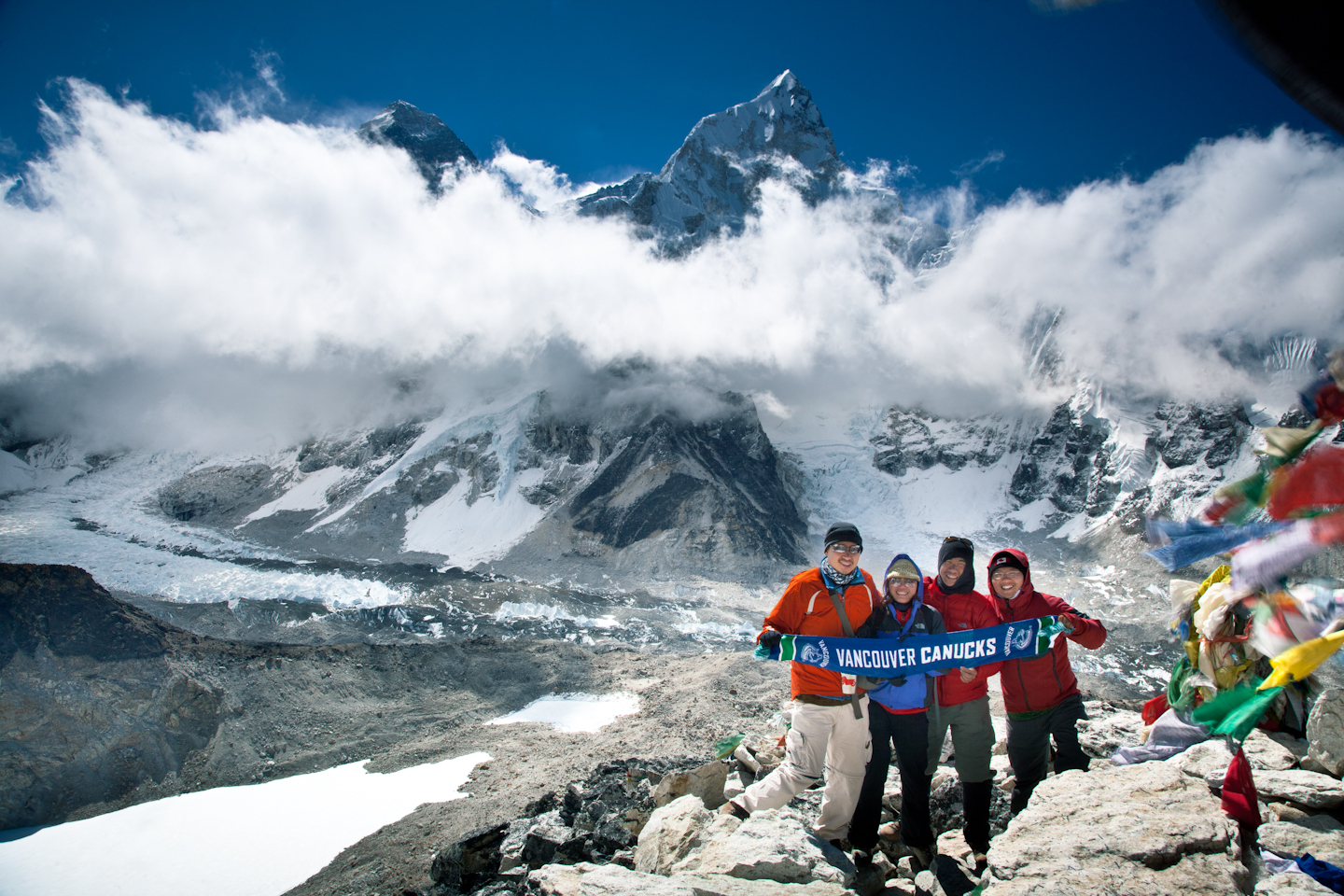 We brought a Canada flag and a piece of paraphernalia from our local hockey team, the Vancouver Canucks, to Kala Patthar as a symbolism of achievement. Superstitiously, we hoped that by having the Canucks scarf adjacent to the highest point on Earth - Mount Everest - it would help our beloved team win the Stanley Cup. The next day - May 9, the Canucks defeat the Predators to advance to the conference finals. So far, it seems to be working :)